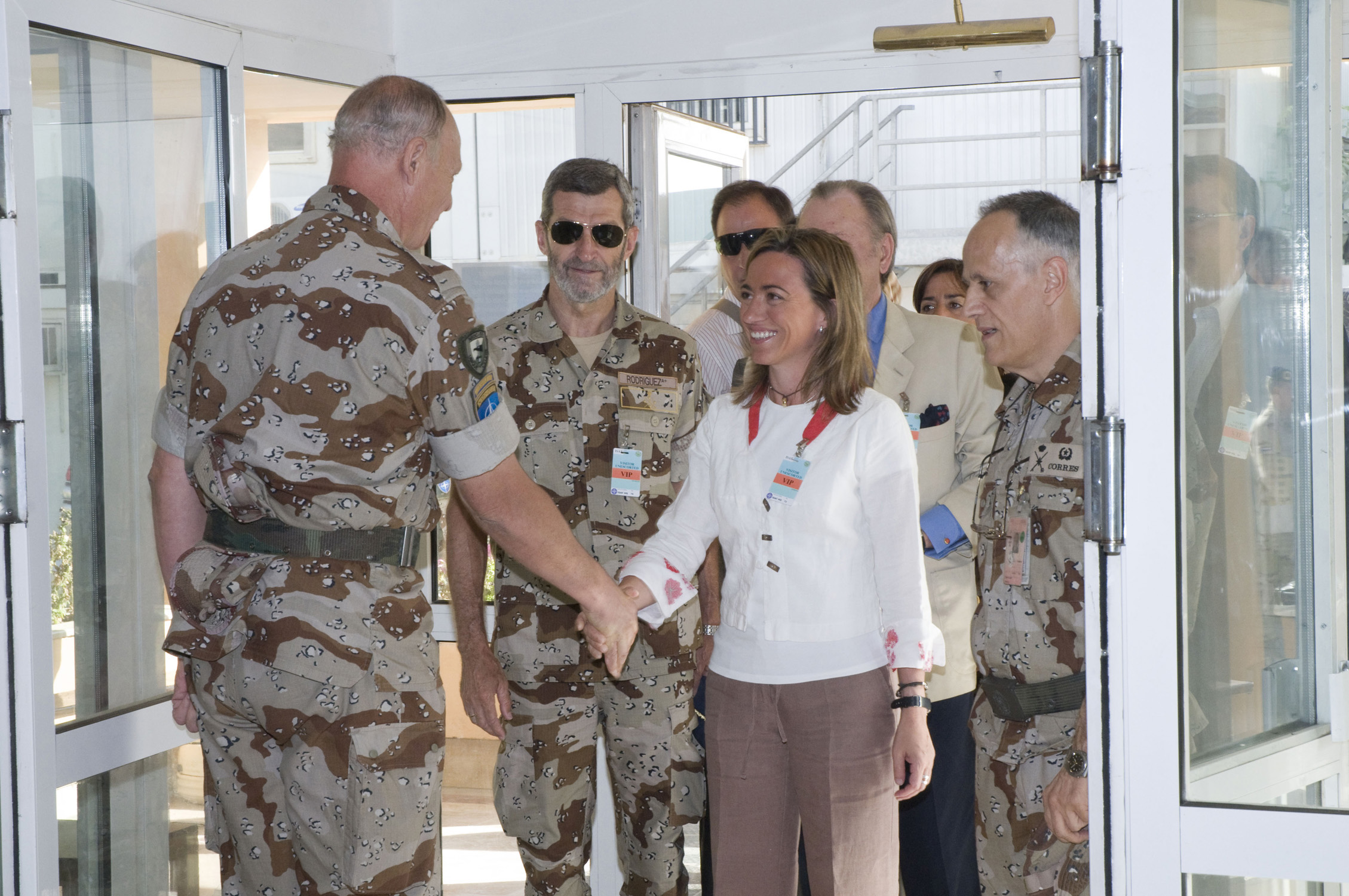 Spanish MOD Carme Chacón visits HQ of ISAF in Afghanistan.